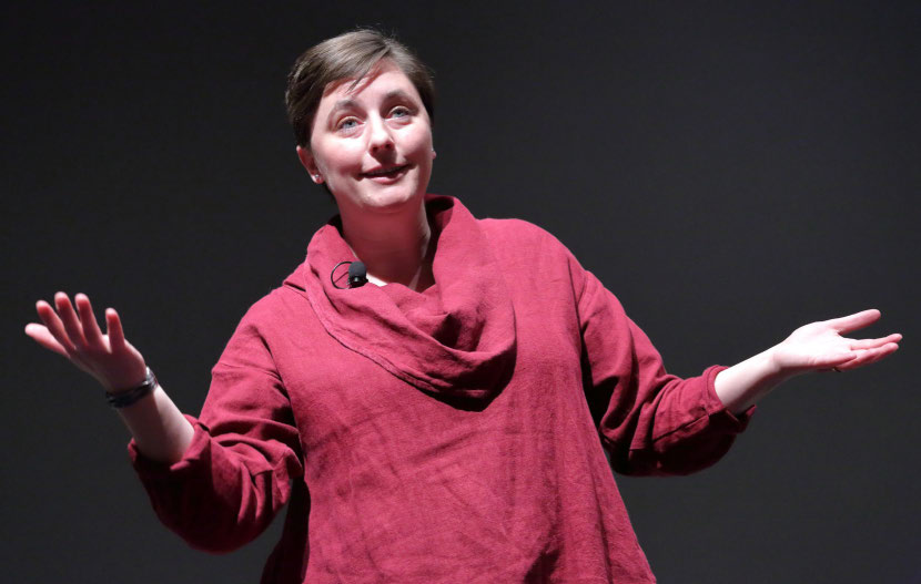 Dr. Katie Hinde, lactation researcher at Arizona State University, speaks on mother's milk at the National Institutes of Health in 2016.